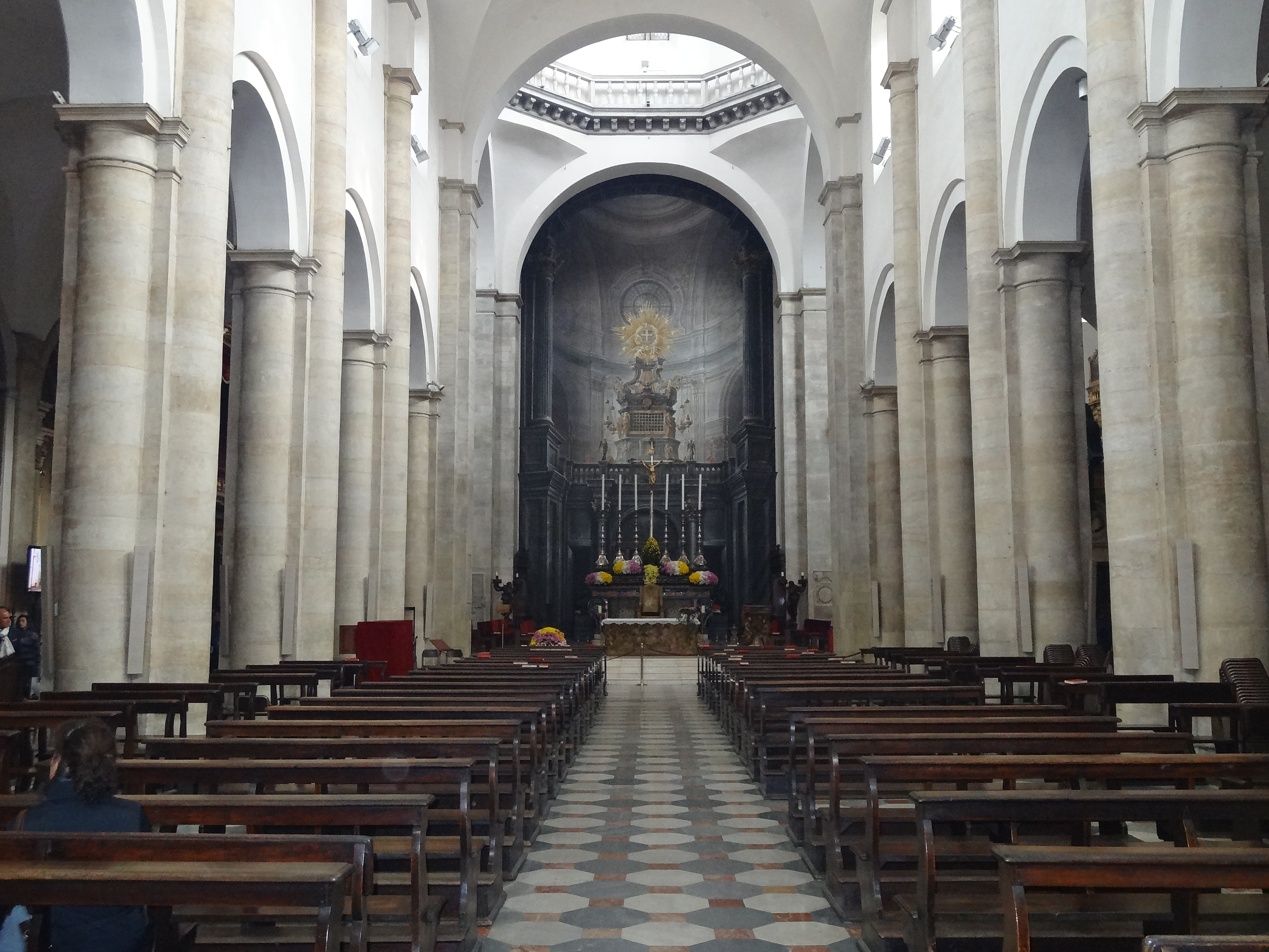 Torino